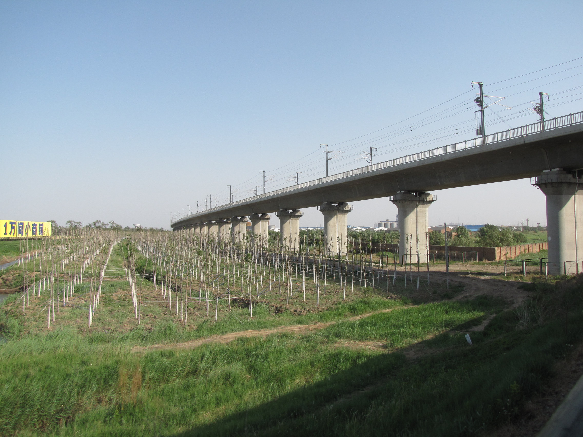 Beijing-Tianjin high speed railway bridge near Tianjin